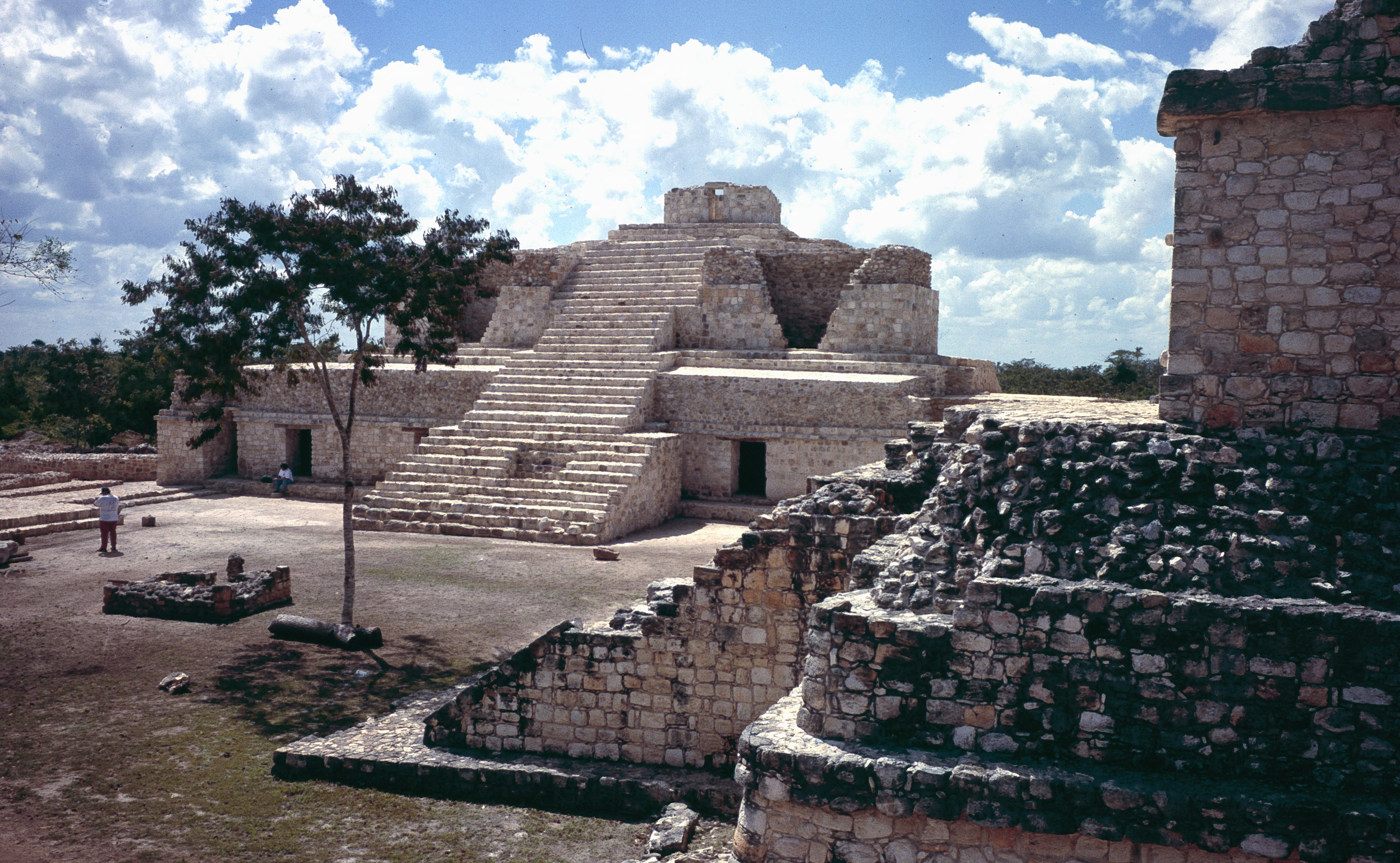 Ek' Balam, Yucatan, Mexico: Structure 16